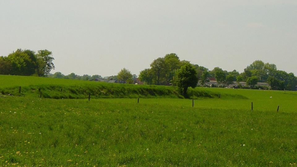 "Halserug", cover sand dune complex